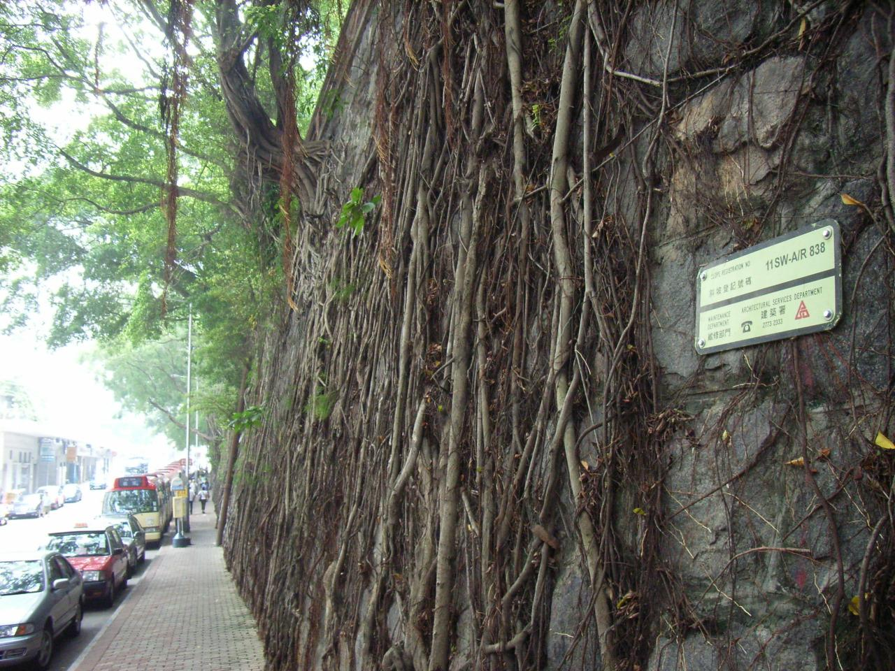 Stone wall trees, Forbes Street, 科士街, Kennedy Town, Hong Kong (By KennethTom).